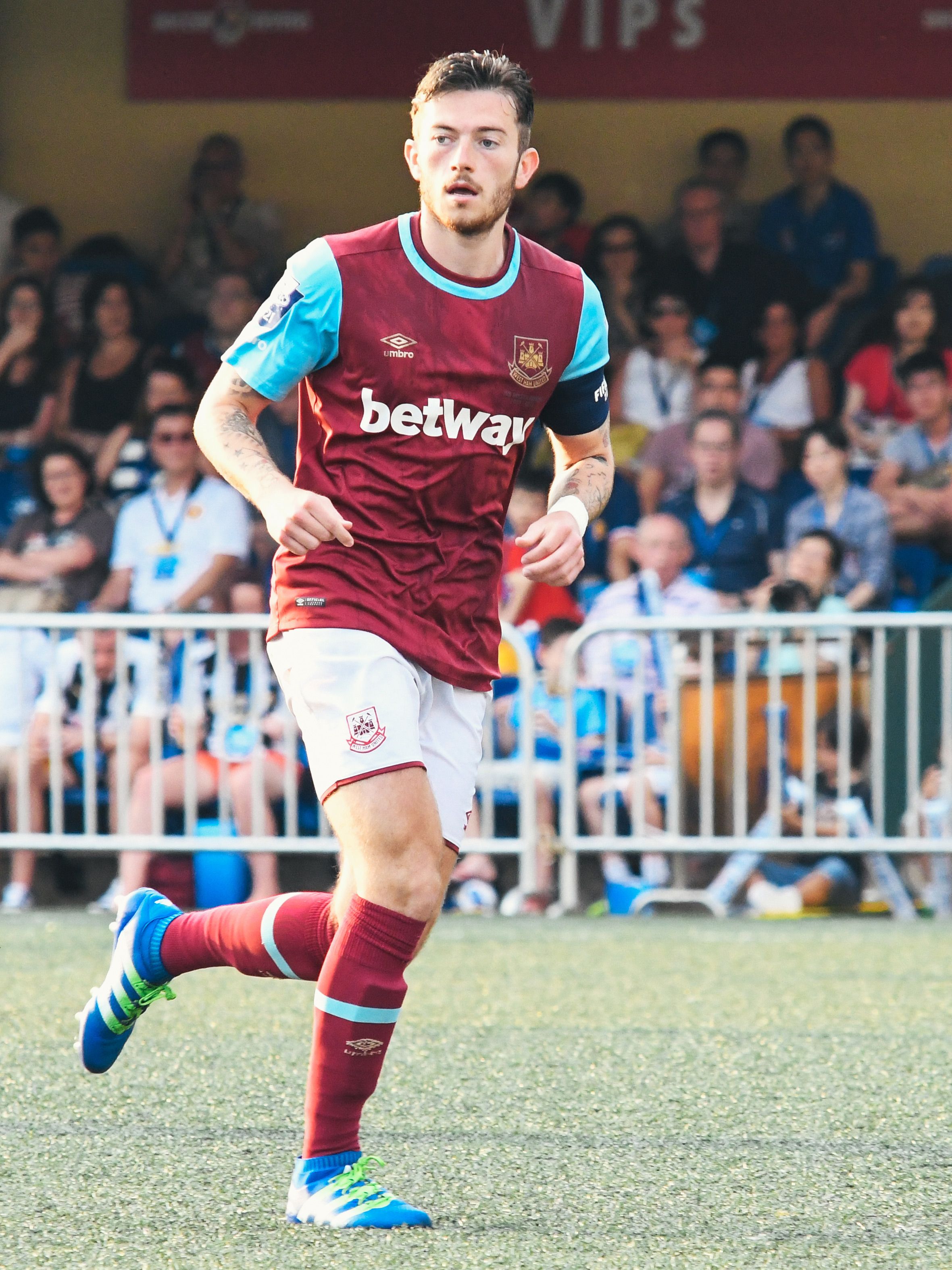 Lewis Page in Hong Kong Soccer Sevens 2016